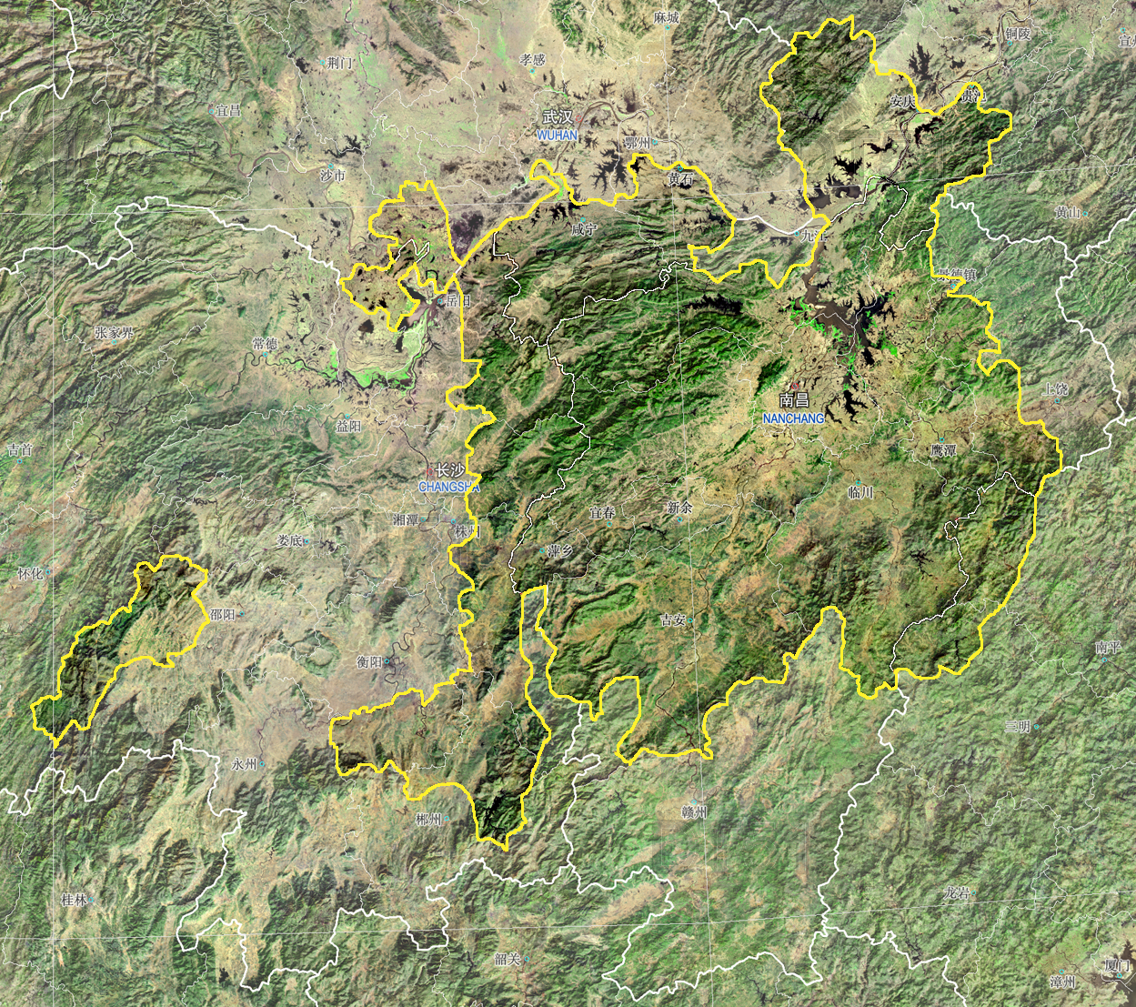 Anotated Satellite Image of Gan area